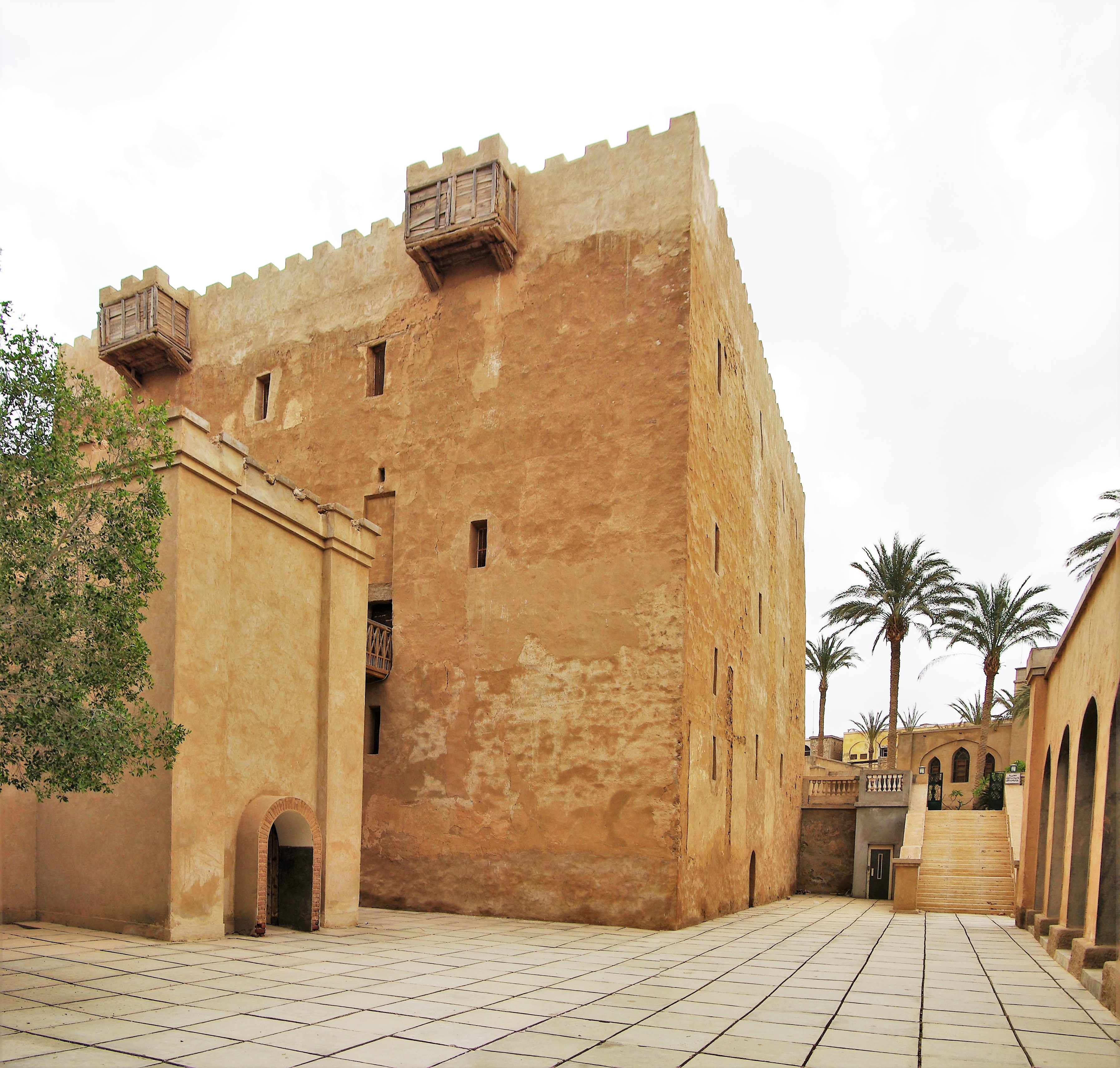 Monastery of Saint Macarius the Great, Wadi Natrun